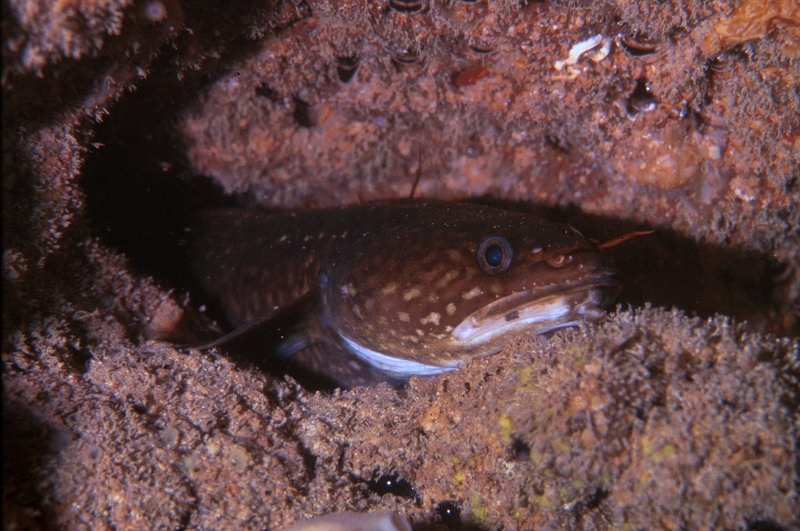 Gaidropsarus mediterraneus photographed in Italy. Photo by Alessandro Pagano.